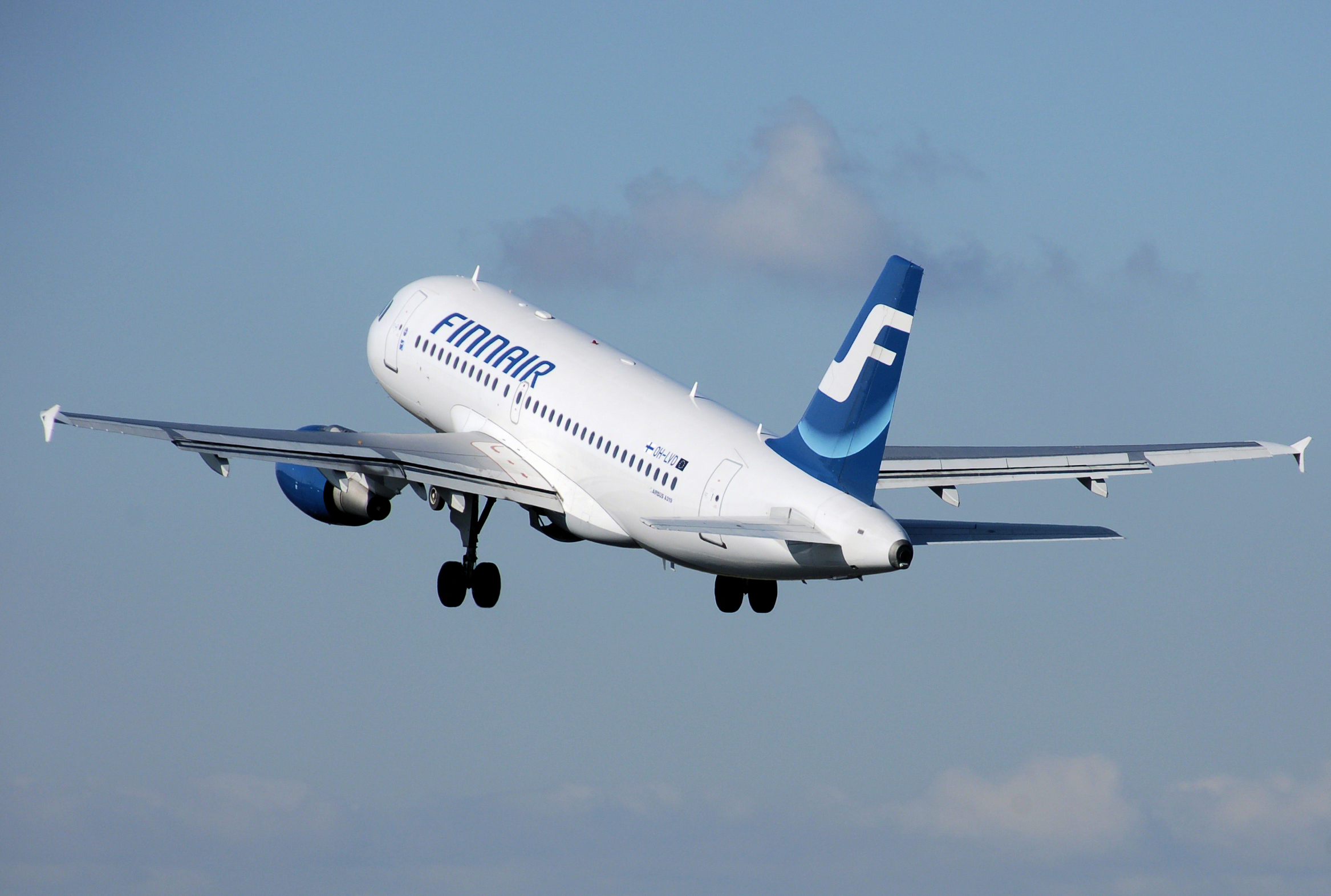 Finnair Airbus A319 takes off from Manchester Airport